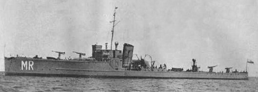 Polish gunnery training ship ORP Mazur, photo from 1935-1939 (former German torpedo boat V-105)